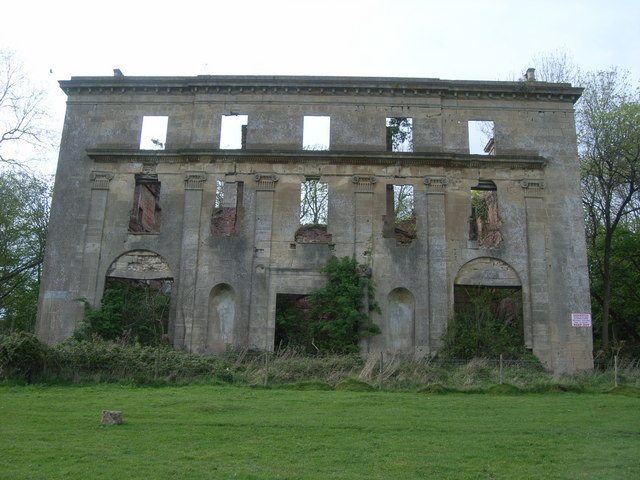 Piercefield House